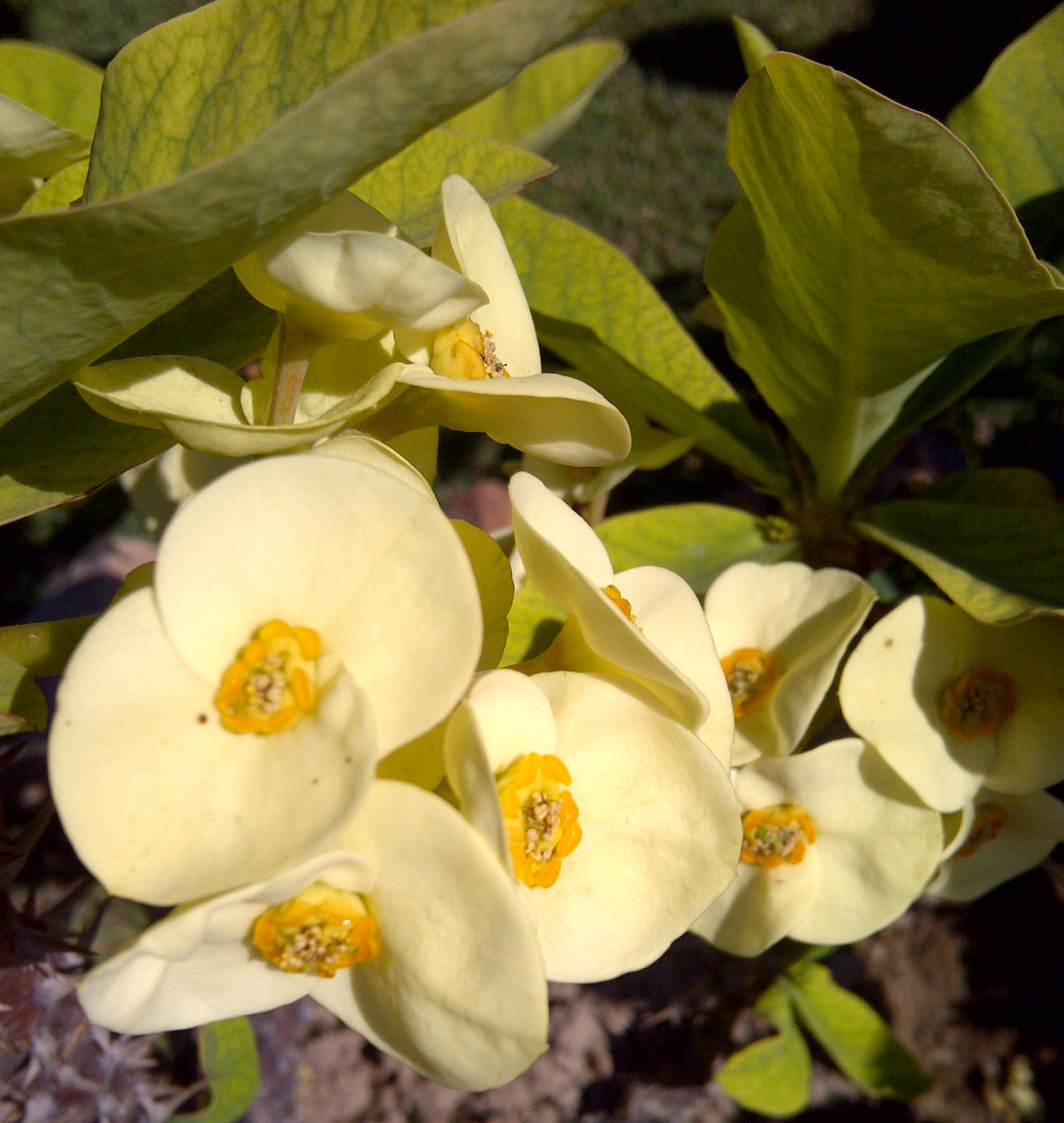 Euphorbia milii in Pakistan